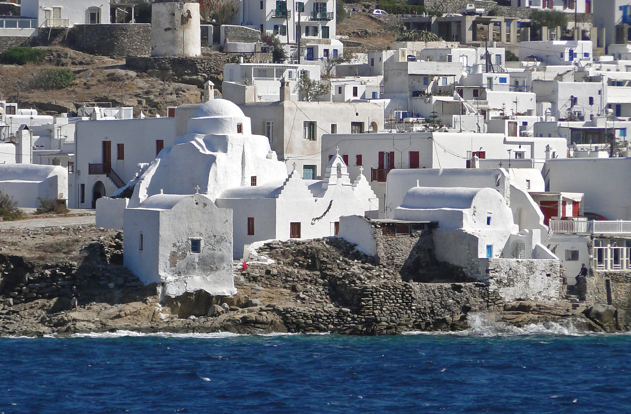 Church of Panagia Paraportiani, Hora, Mykonos